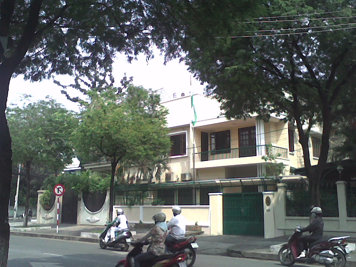 Hungarian consulate on Nguyen Khoach Khoan, Ho Chi Minh City